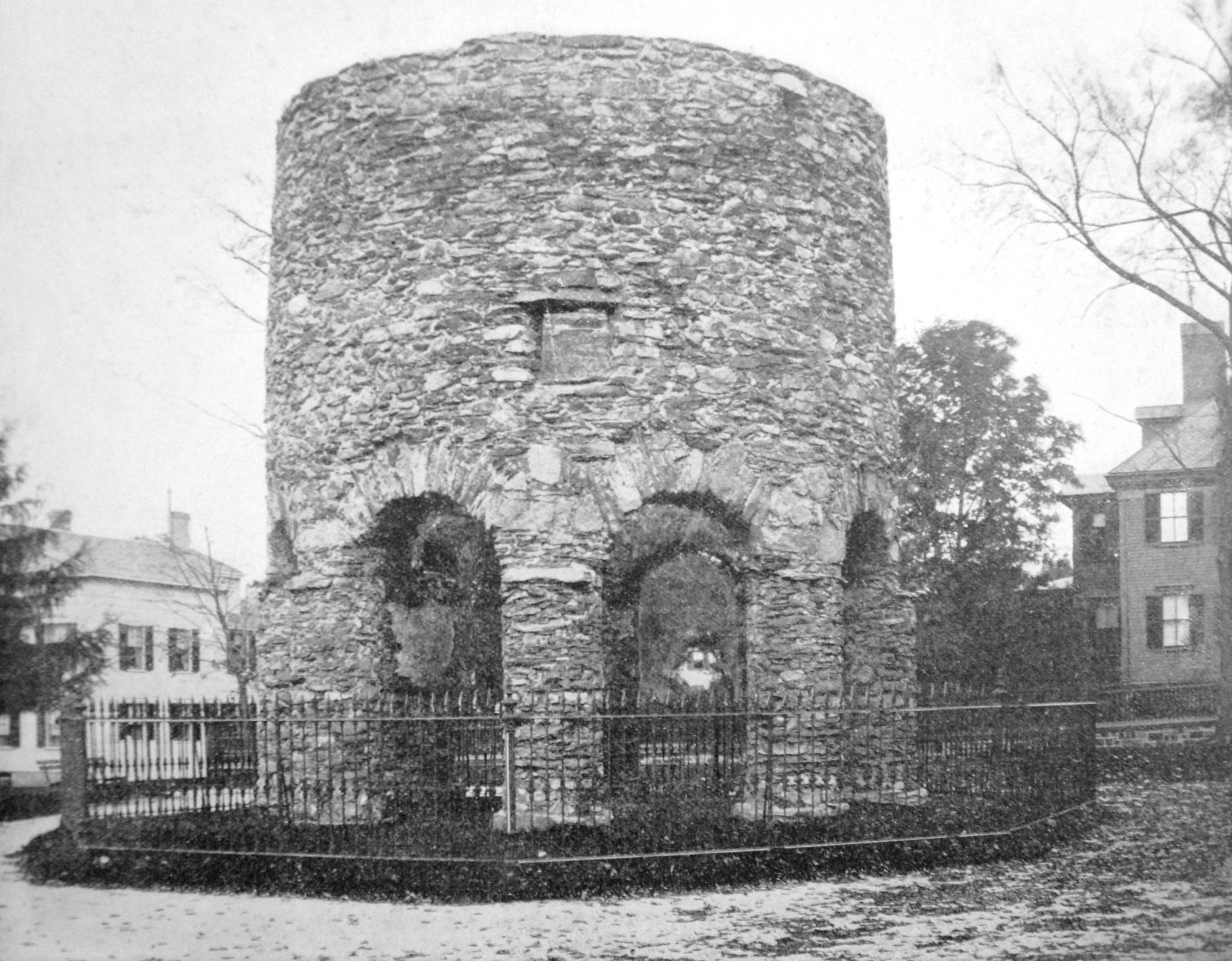 The old stone tower in Touro Park, Newport, Rhode Island, circa 1894. Quote from original caption: "The most casual study of the photograph leads one to wonder why, if the tower was built for military purposes, the large arches were left open at its base"...